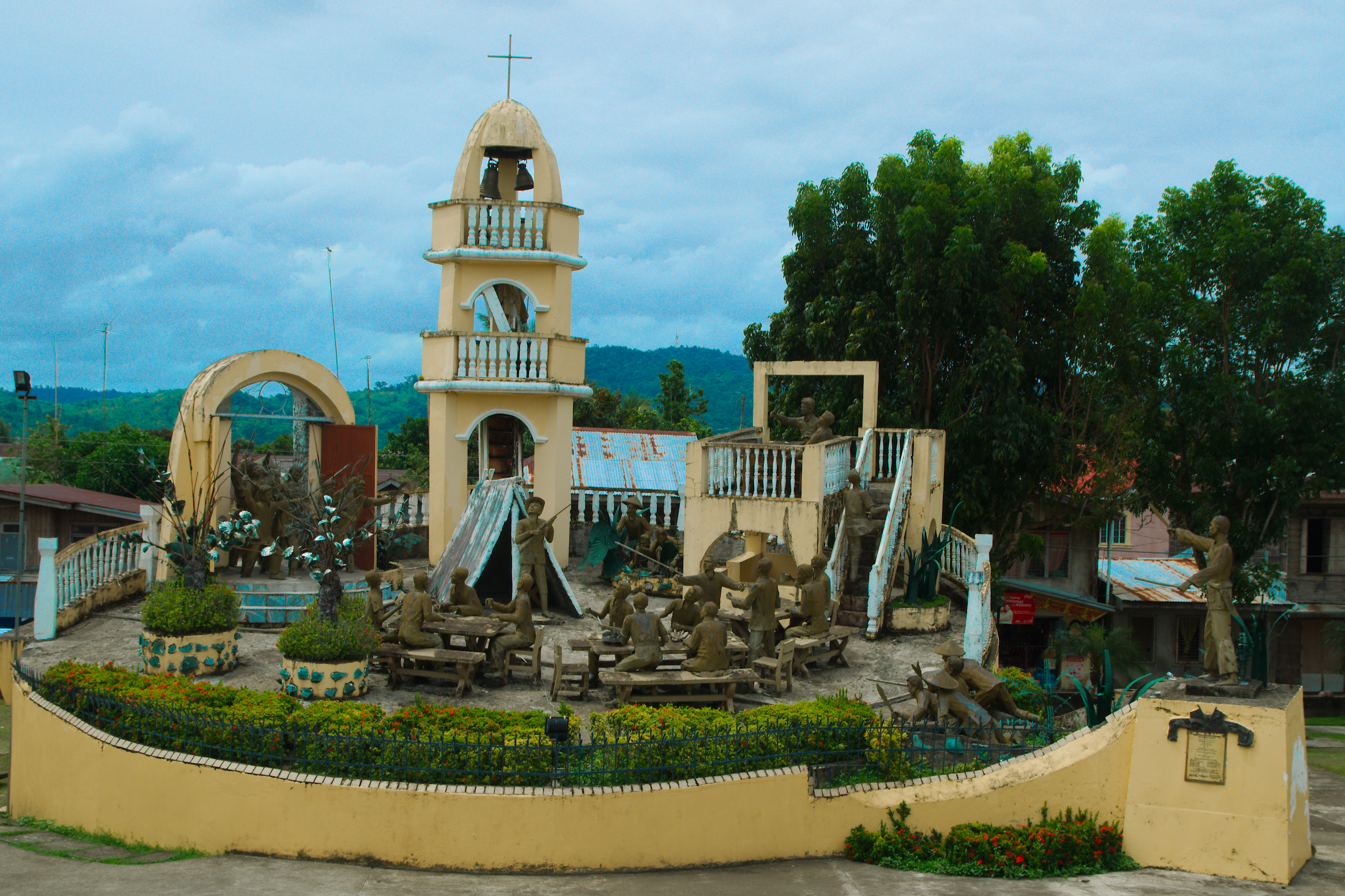 Balangiga, Eastern Samar